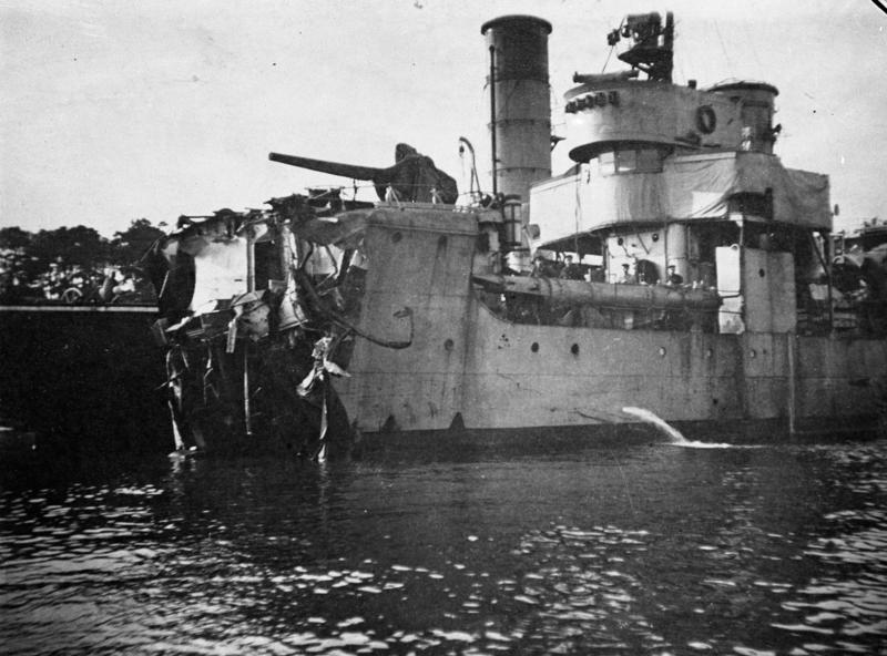 regarding the information given by the federal archives the picture shows german torpedoboat B 98, heavily damaged after it struck a mine on october the 15th. It was later towed to the port of Libau. According to another photograph, published in Focks book Z vor!, the damage to B 98 was even heavier, showing her with a torn off bow up to the forward torpedo tubes. It´s possible the torpedoboat B 111.